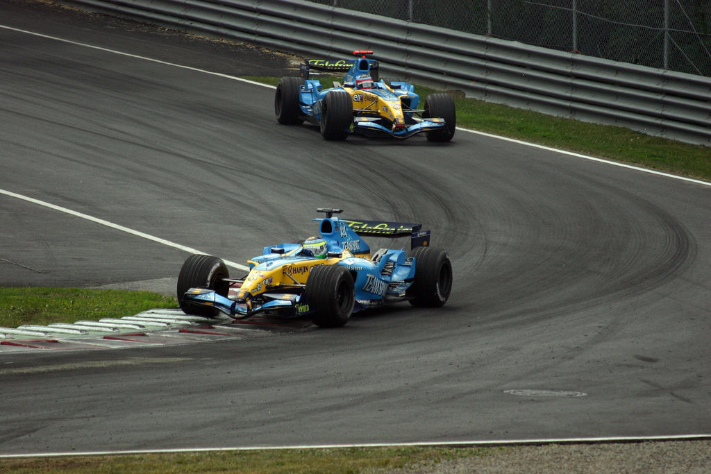 Giancarlo Fisichella leads Renault F1 team-mate Fernando Alonso in the early stages of the 2005 Canadian Grand Prix.